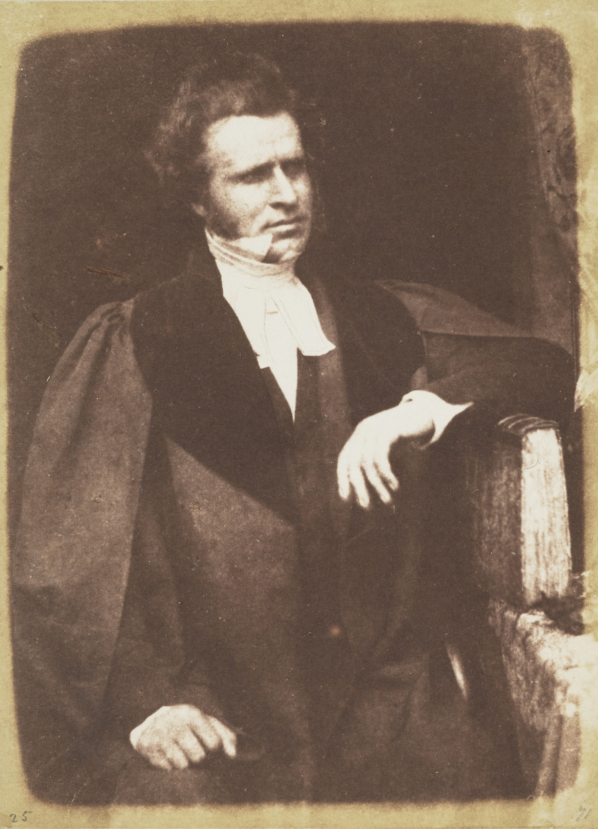 National Galleries Scotland Robert Adamson & David Octavius Hill Rev. James Begg, 1808 - 1883. Free Church minister